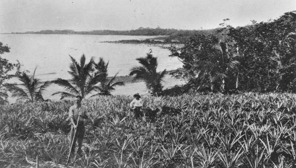 Pineapple plantation at Cardwell, ca. 1906